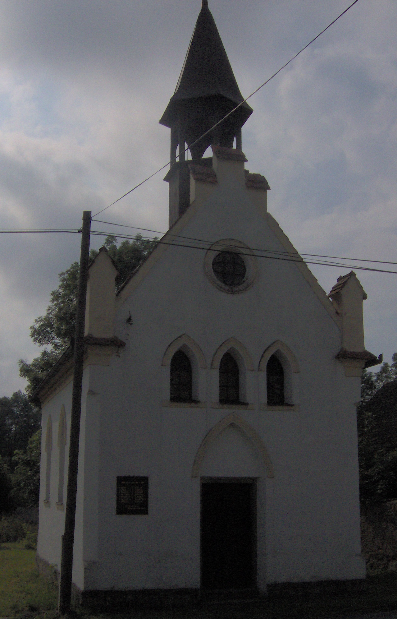 Chapel in Krajníčko, Strakonice District, Czech republic